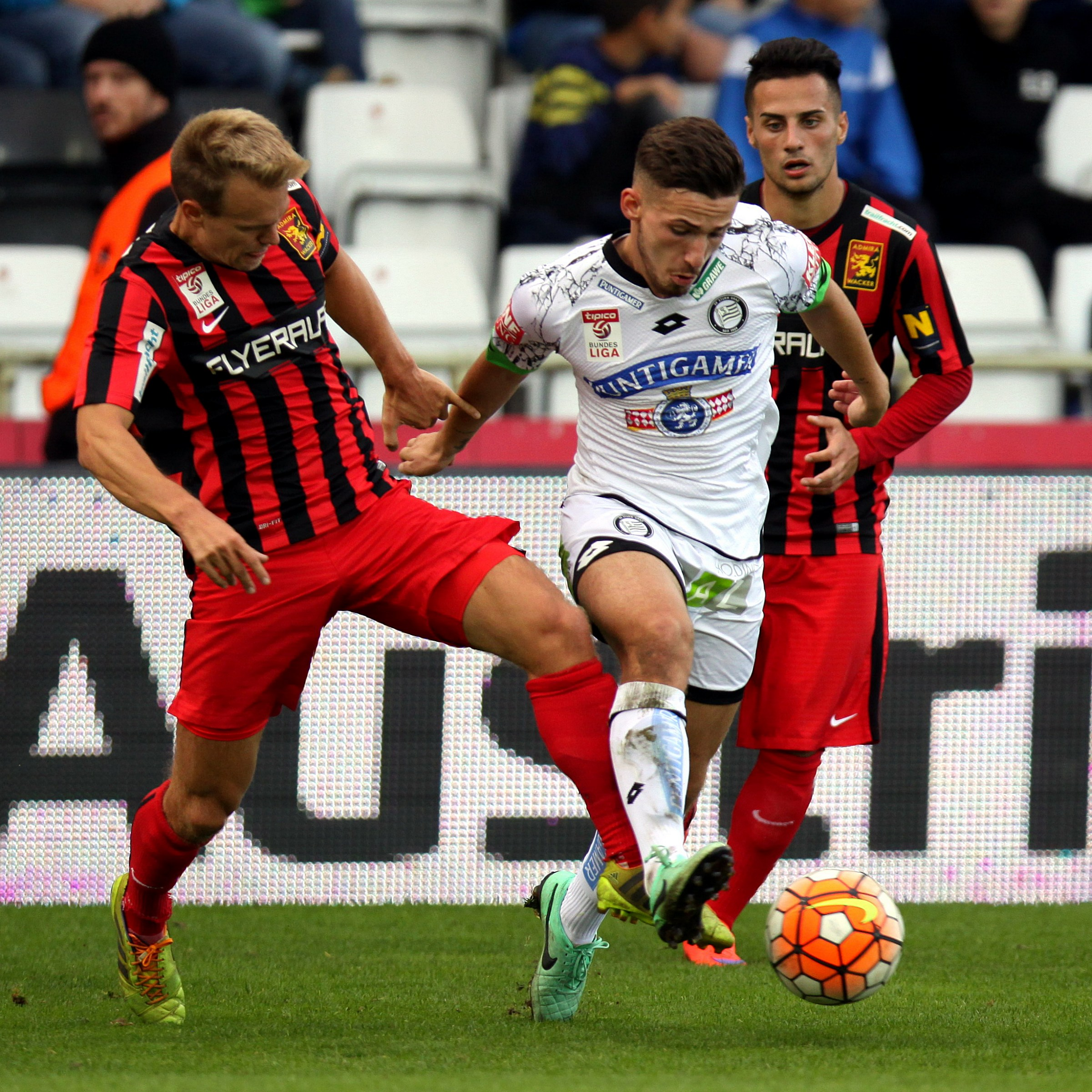 Match of the Austrian Football Bundesliga – FC Admira Wacker Mödling (red shirts) vs. SK Sturm Graz (white shirts) 0-1 (0-0) on 2015-09-27 in Bundesstadion Sudstadt – The photo shows Donis Avdijaj (middle), Daniel Toth (left) and Eldis Bajrami (right)